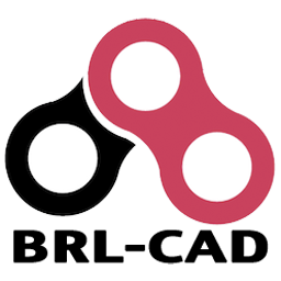 Logo of BRL-CAD